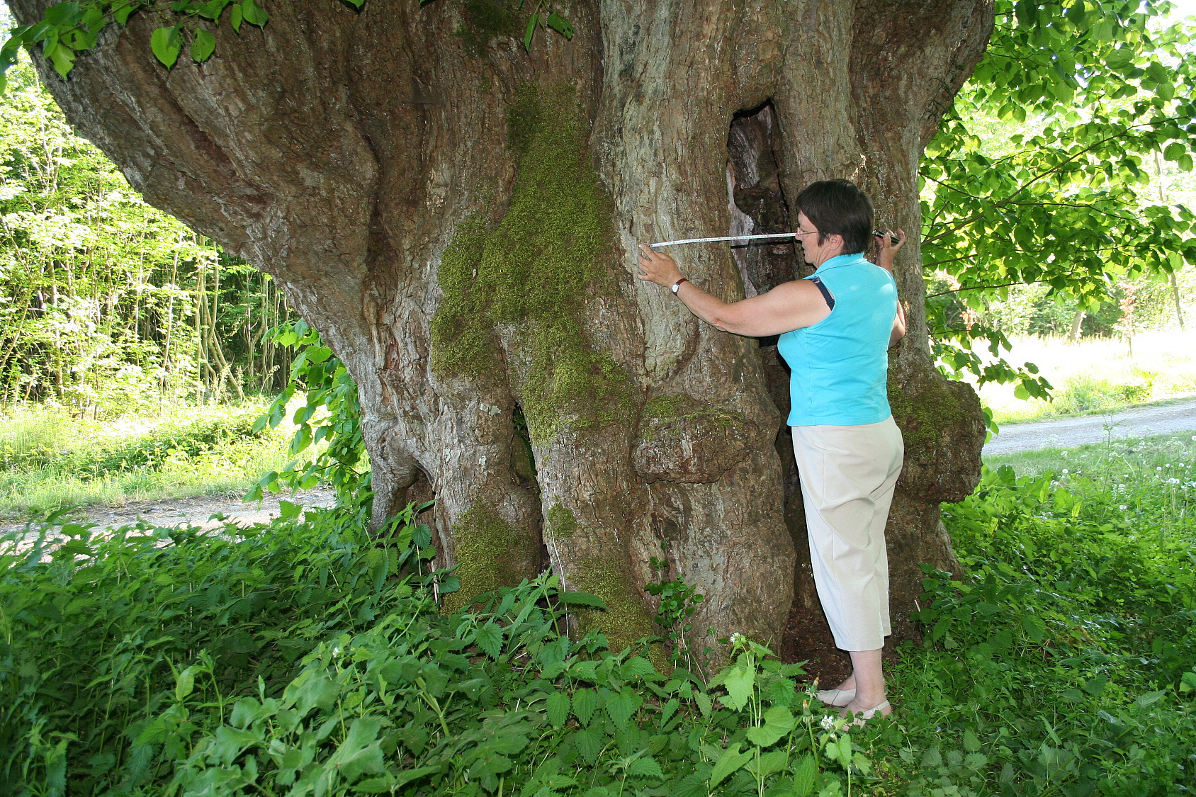 Large-leaved Lime (Tilia platyphyllos)